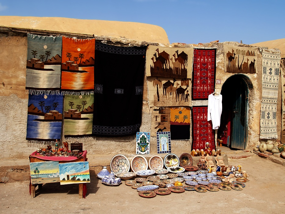 Ksar of Medenine